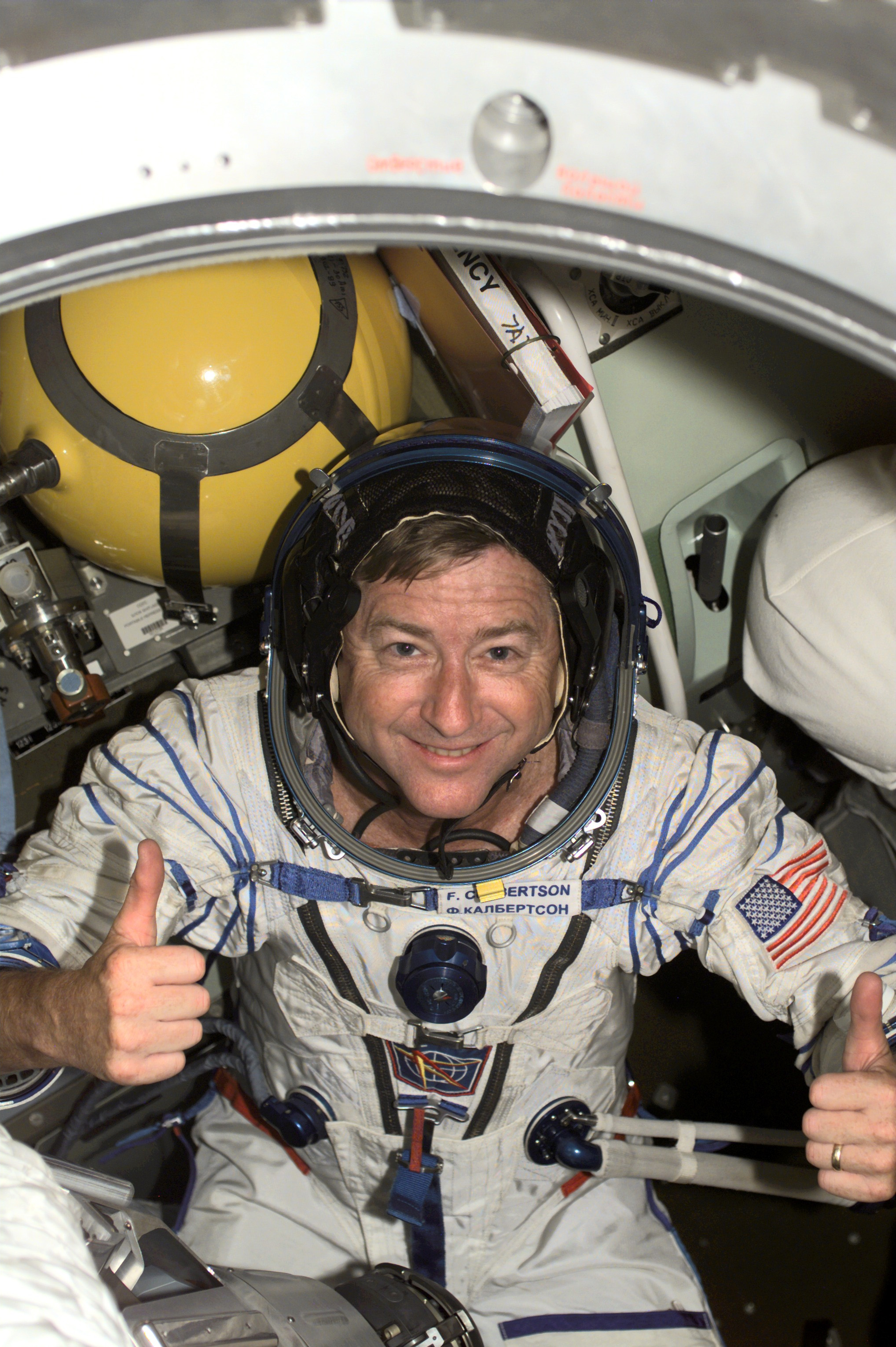 Astronaut Frank L. Culbertson, Jr., Expedition Three mission commander, wearing a Russian Sokol suit, is seated in the Soyuz spacecraft that is docked to the International Space Station (ISS). Culbertson and two cosmonauts , who came up to the orbital outpost onboard the Space Shuttle Discovery with the crew of the STS-105 mission, will be replacing astronauts Susan J. Helms and James S. Voss and cosmonaut Yury V. Usachev as residents on the ISS. His Expedition Three crew mates are cosmonauts Vladimir N. Dezhurov and Mikhail Tyurin, flight engineers. This image was taken with a digital still camera.